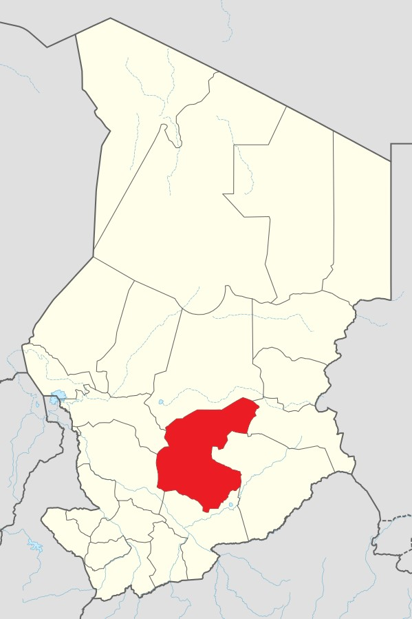 Map of Guera Region